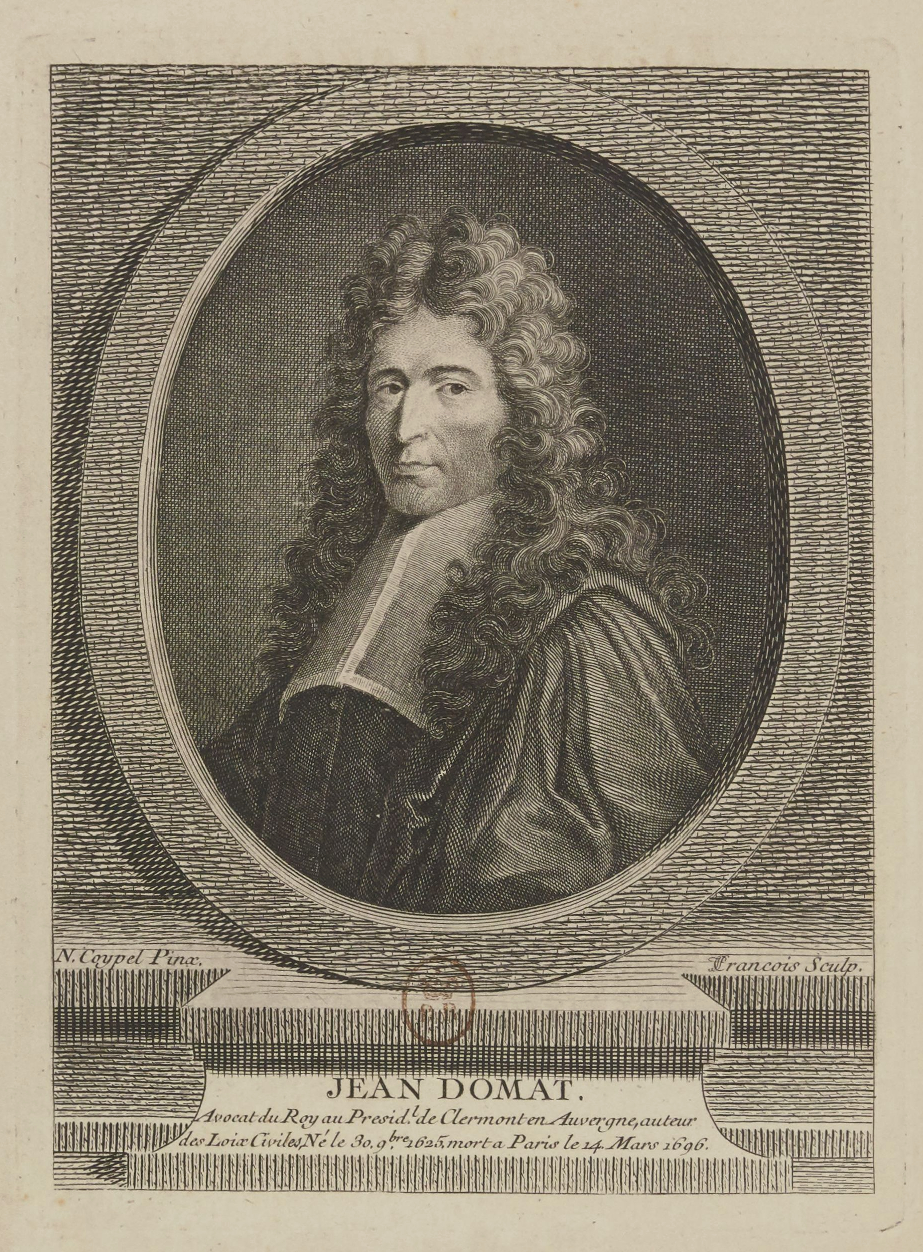 Jean Domat (1625 - 1696), french lawyer.